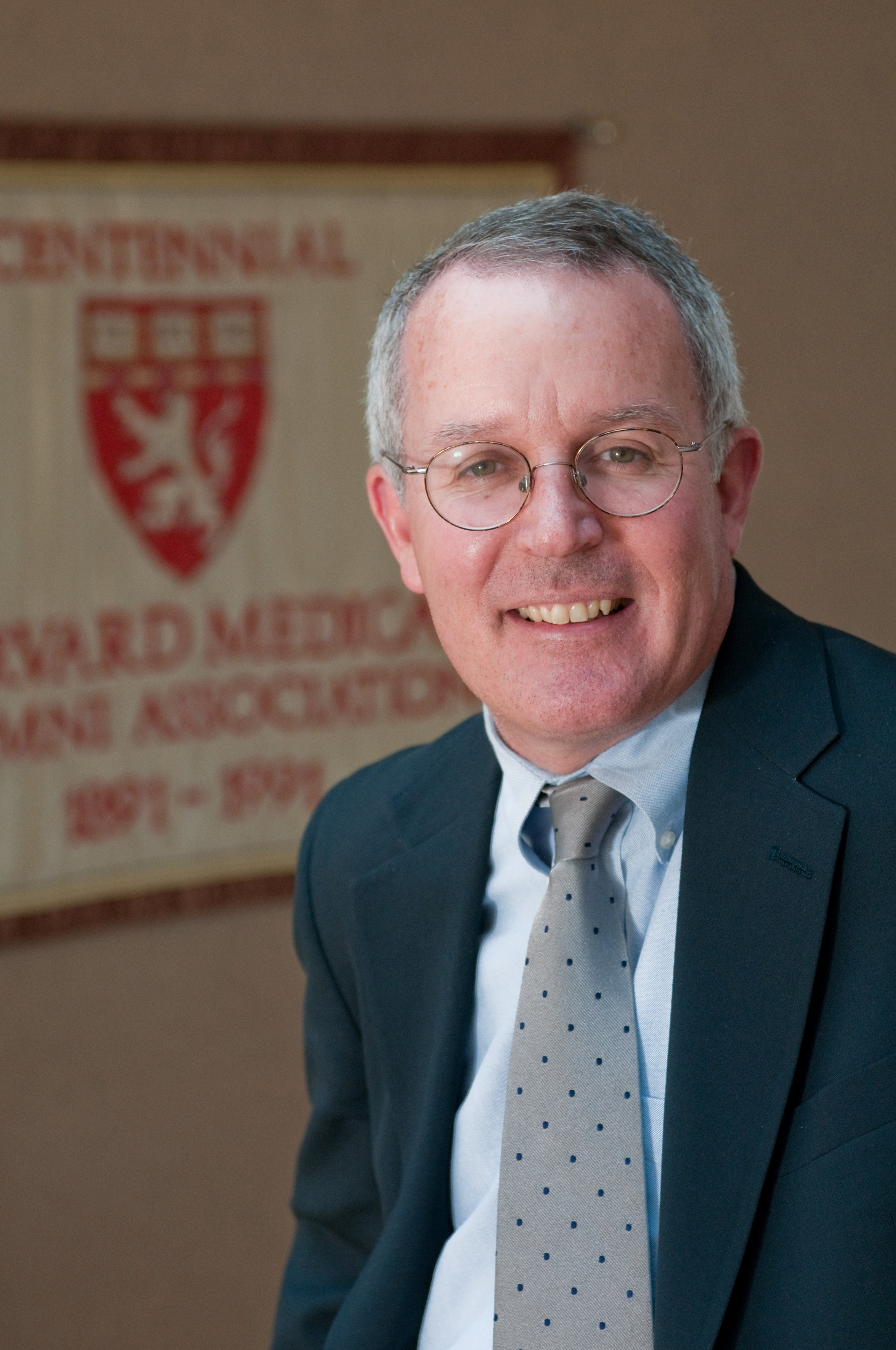 Image of Dr. David W. Bates